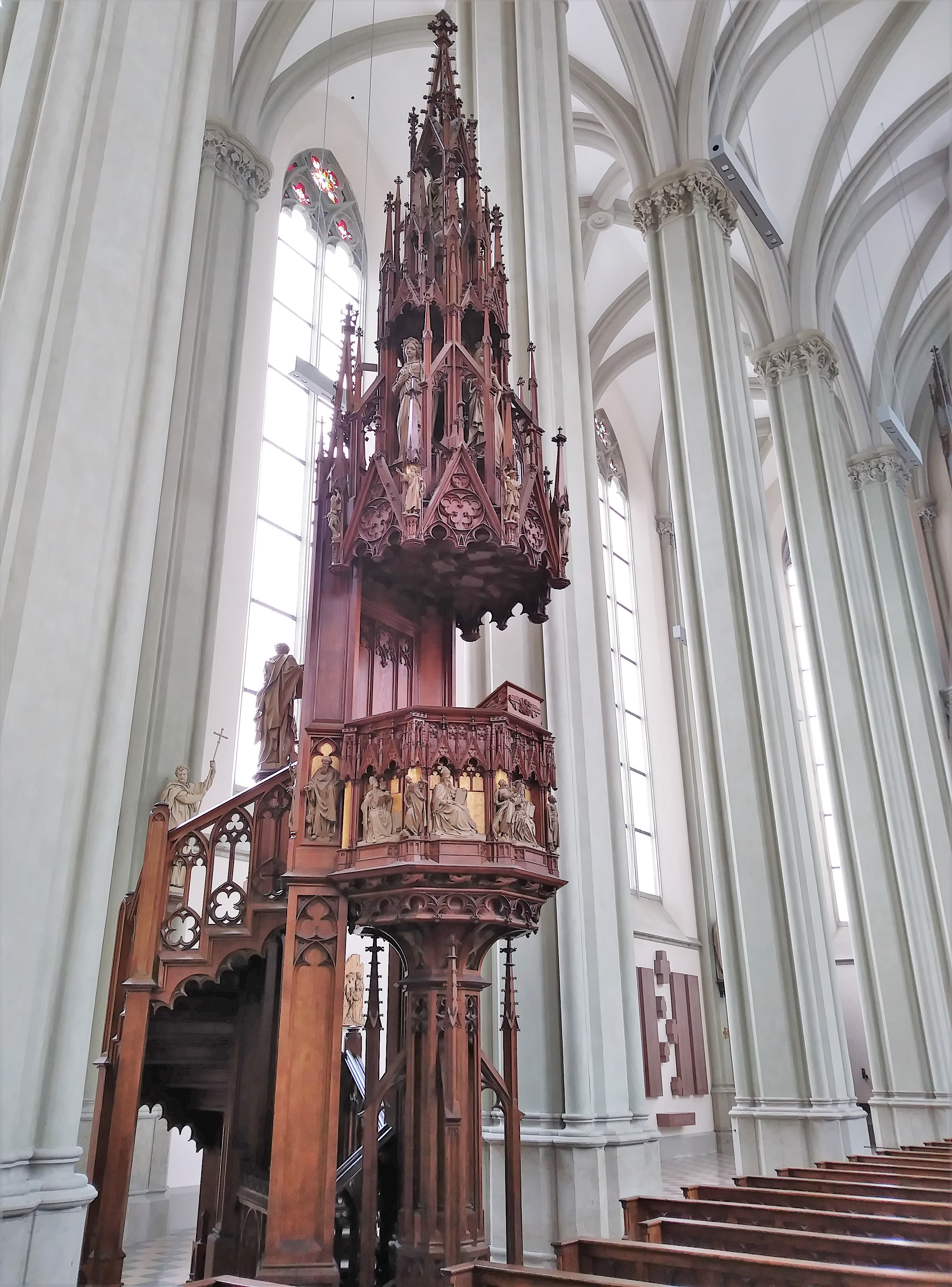 Interior of Heilig-Kreuz-Kirche (Giesing)